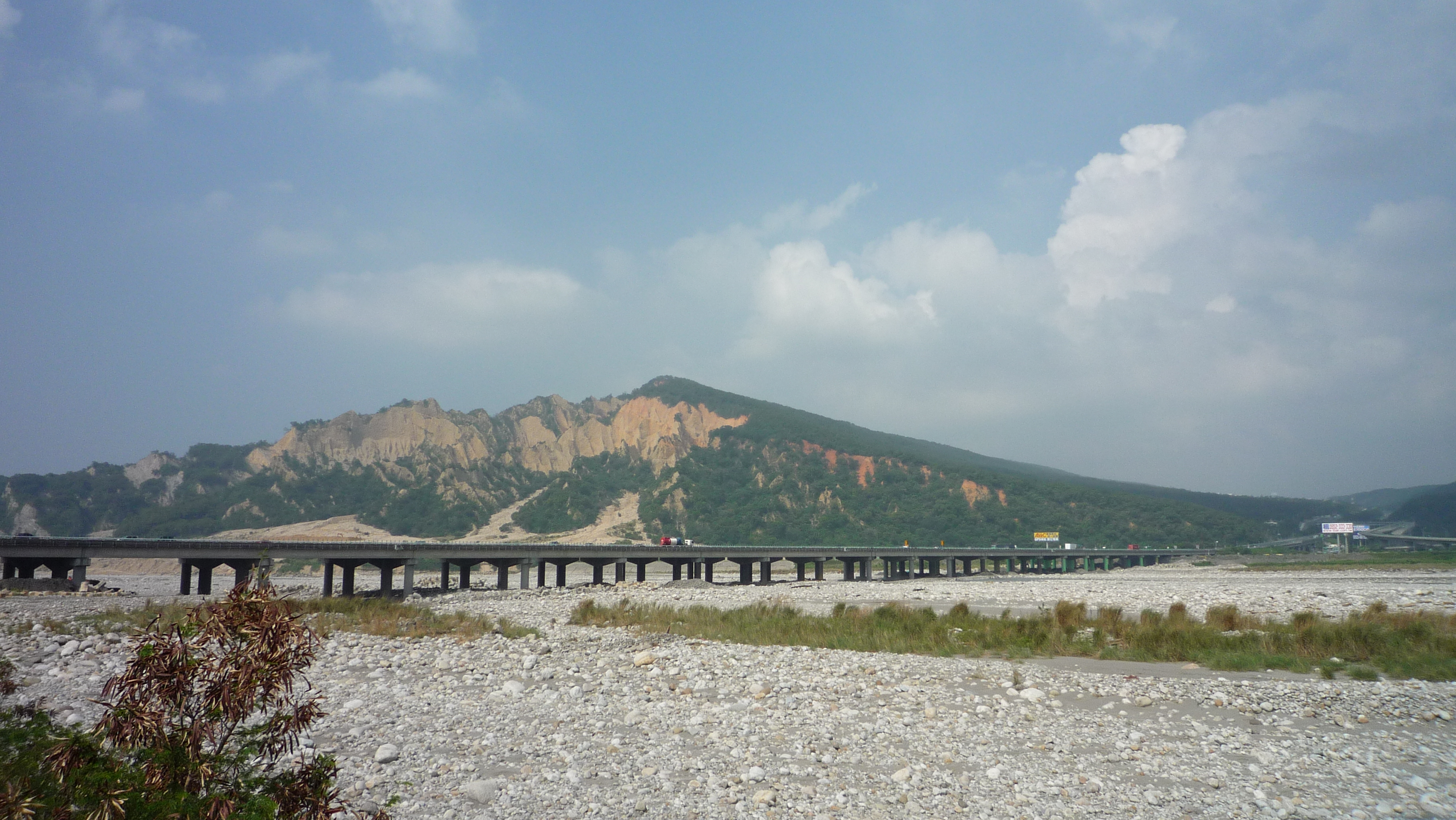 Huo-yen Mountain, locate at San-yi, Miaoli county, Taiwan. The bridge is National Highway No.1 (a.k.a. Sun Yat-sen Freeway)